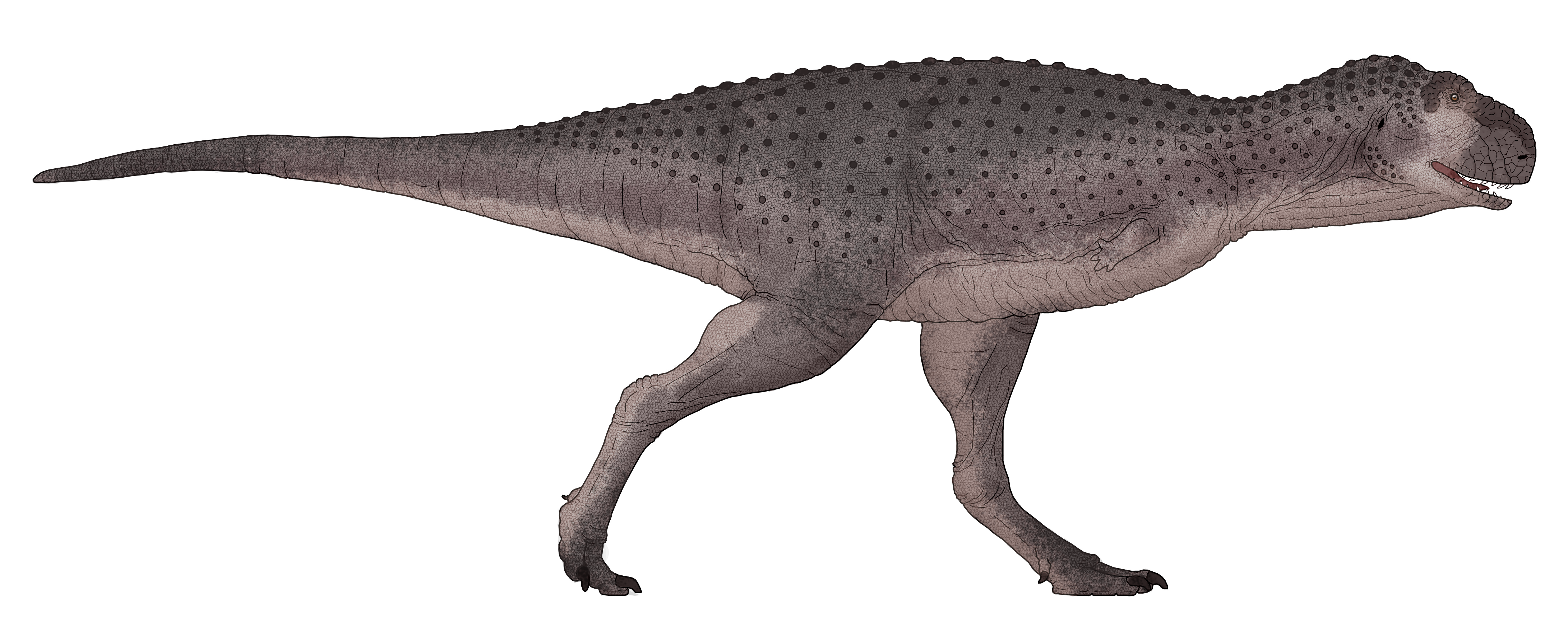 Reconstruction of Thanos simonattoi based on PaleoJoe abelisaur skeletal drawings (